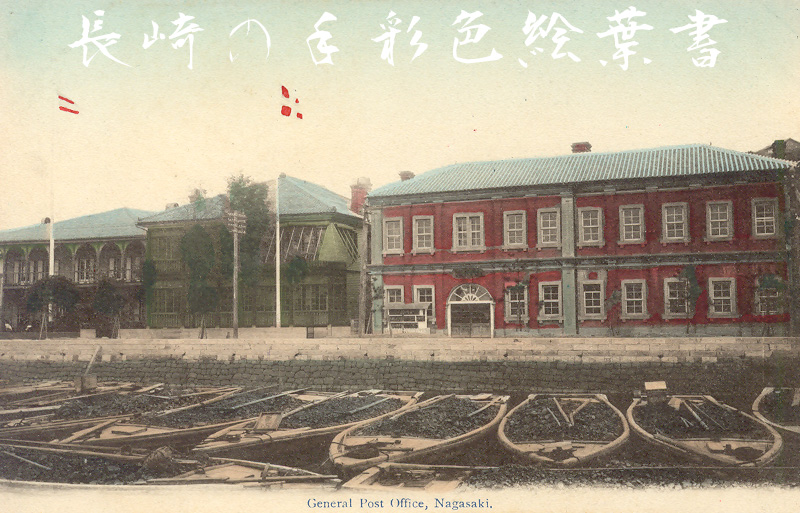 Japanese hand tinted postcard of the Nagasaki General Post Office